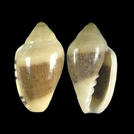 Species: Marginella piperata albocincta Sowerby II, 1846 Distribution: Jeffreys Bay to East London Specimen: Luis Ferreira collection data: scuba 15m, Algoa Bay. South Africa L 15,6mm